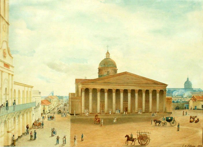 View of the West side of Victoria Plaza of Buenos Aires. The Cathedral façade is seen.